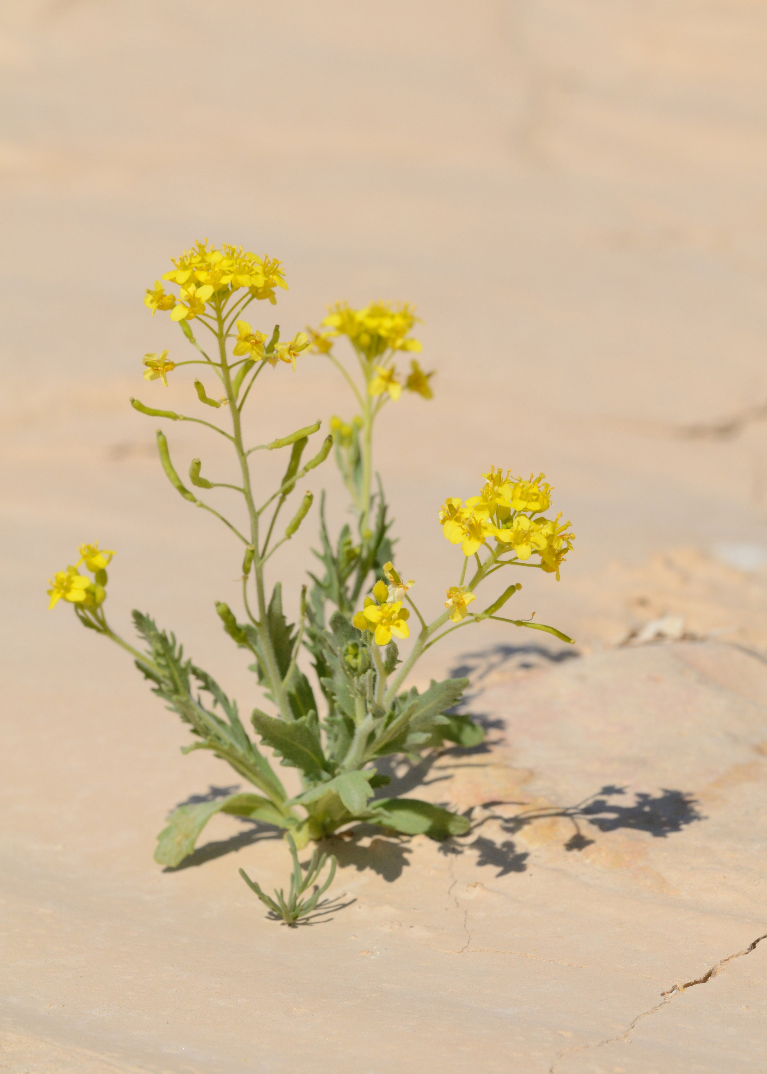 Nasturtiopsis coronopifolia (Desf.) Boiss., Nahal Zin, Arava Valley, Israel, February 28, 2014.